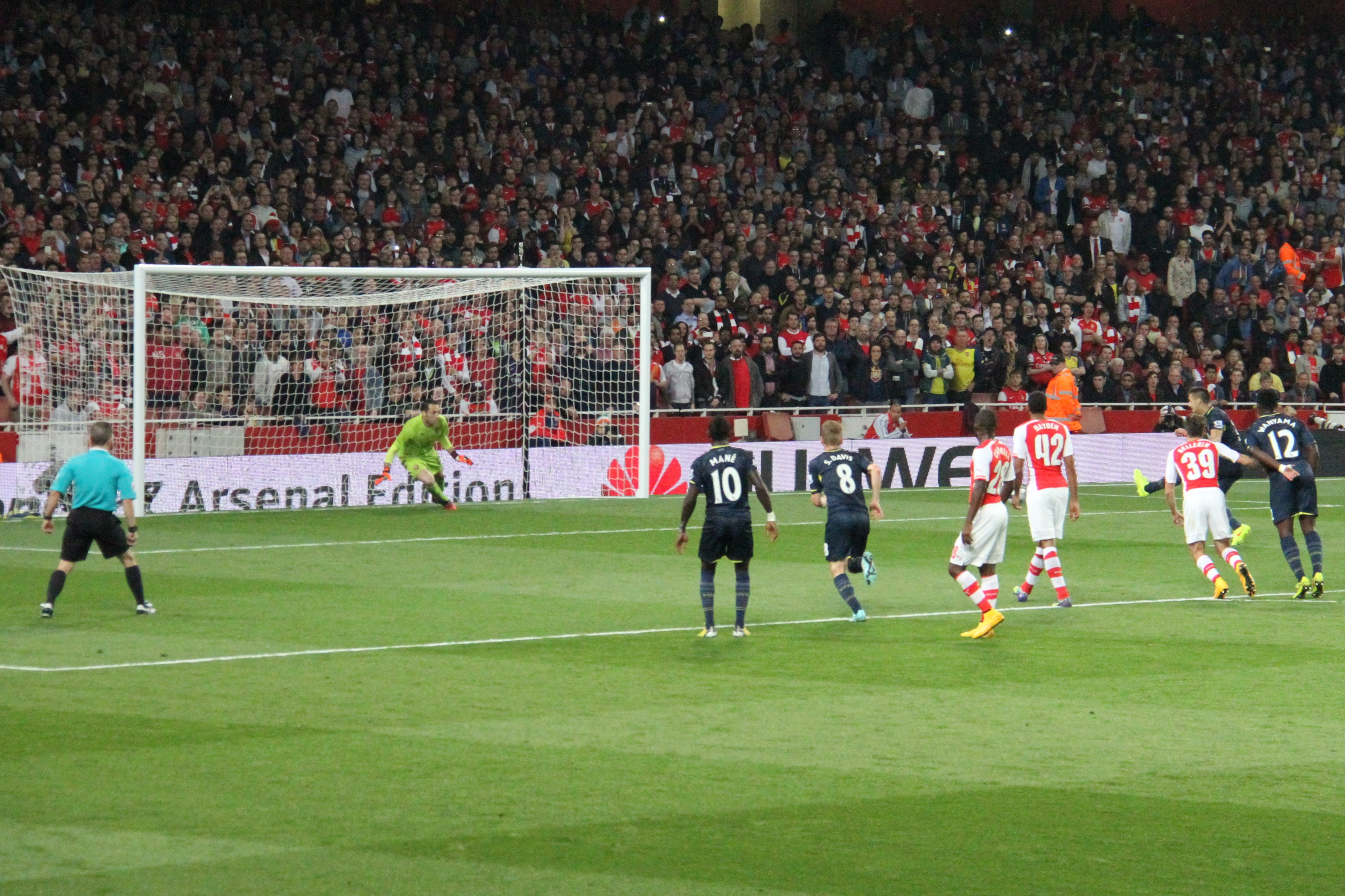 Southampton's Dusan Tadic scoring a penalty, his first goal for the club, as they defated Arsenal in 2014